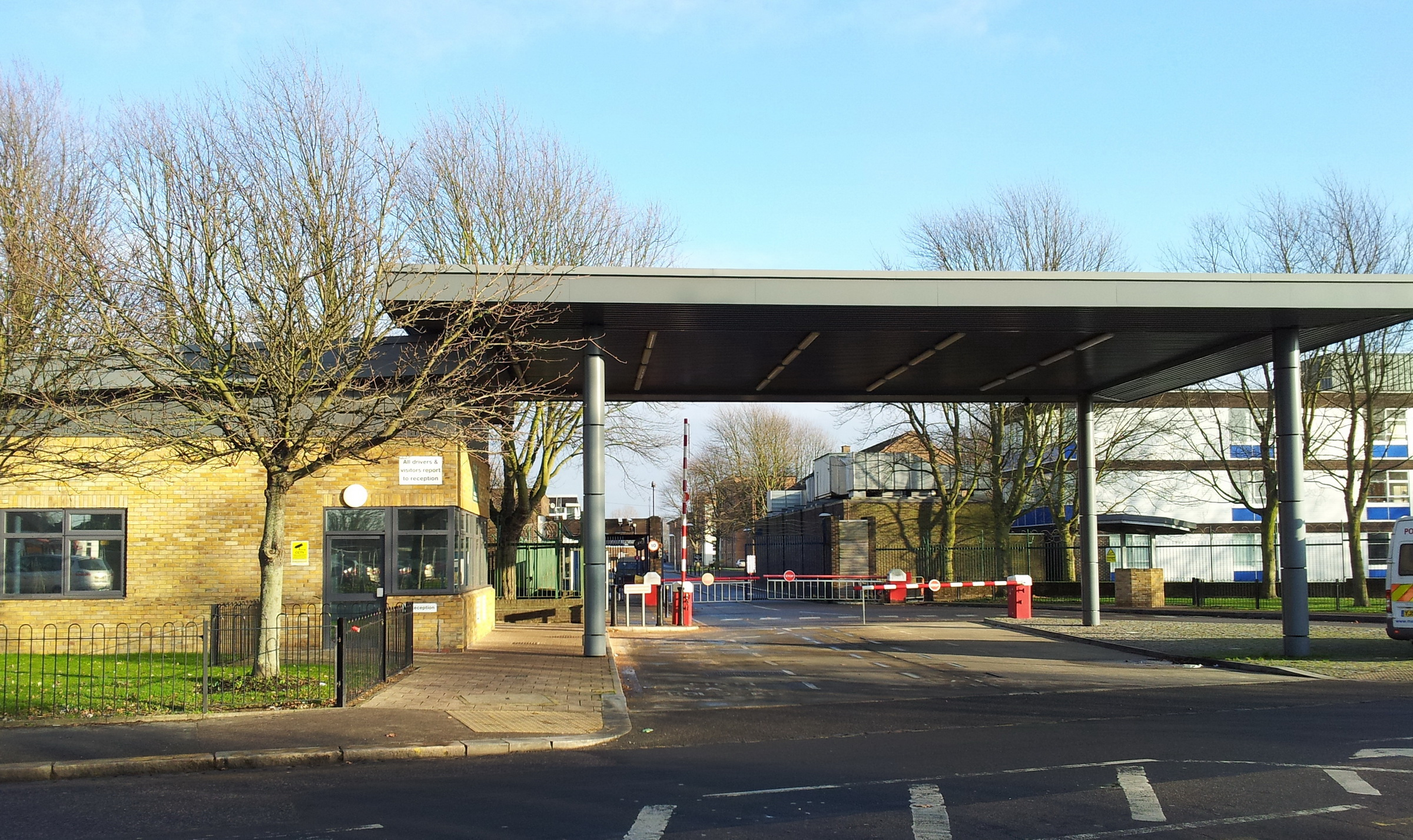 Main entrance of Royal Artillery Barracks, Woolwich, South East London.